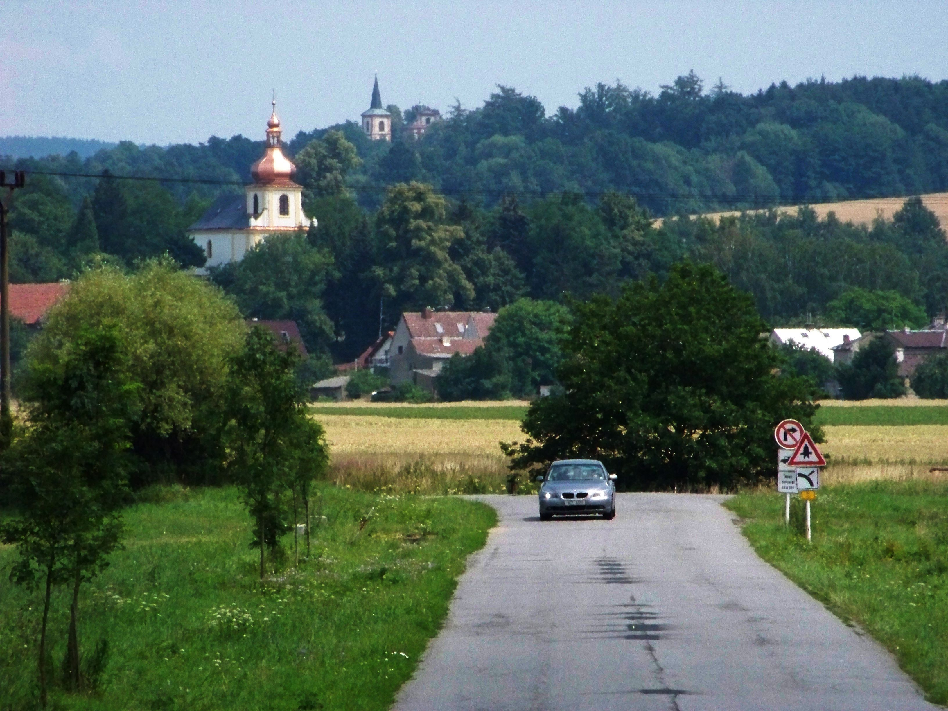 Běstovice, Ústí nad Orlicí District, Pardubice Region, the Czech Republic. Road III/3058 and All Saints Church in Běstovice.